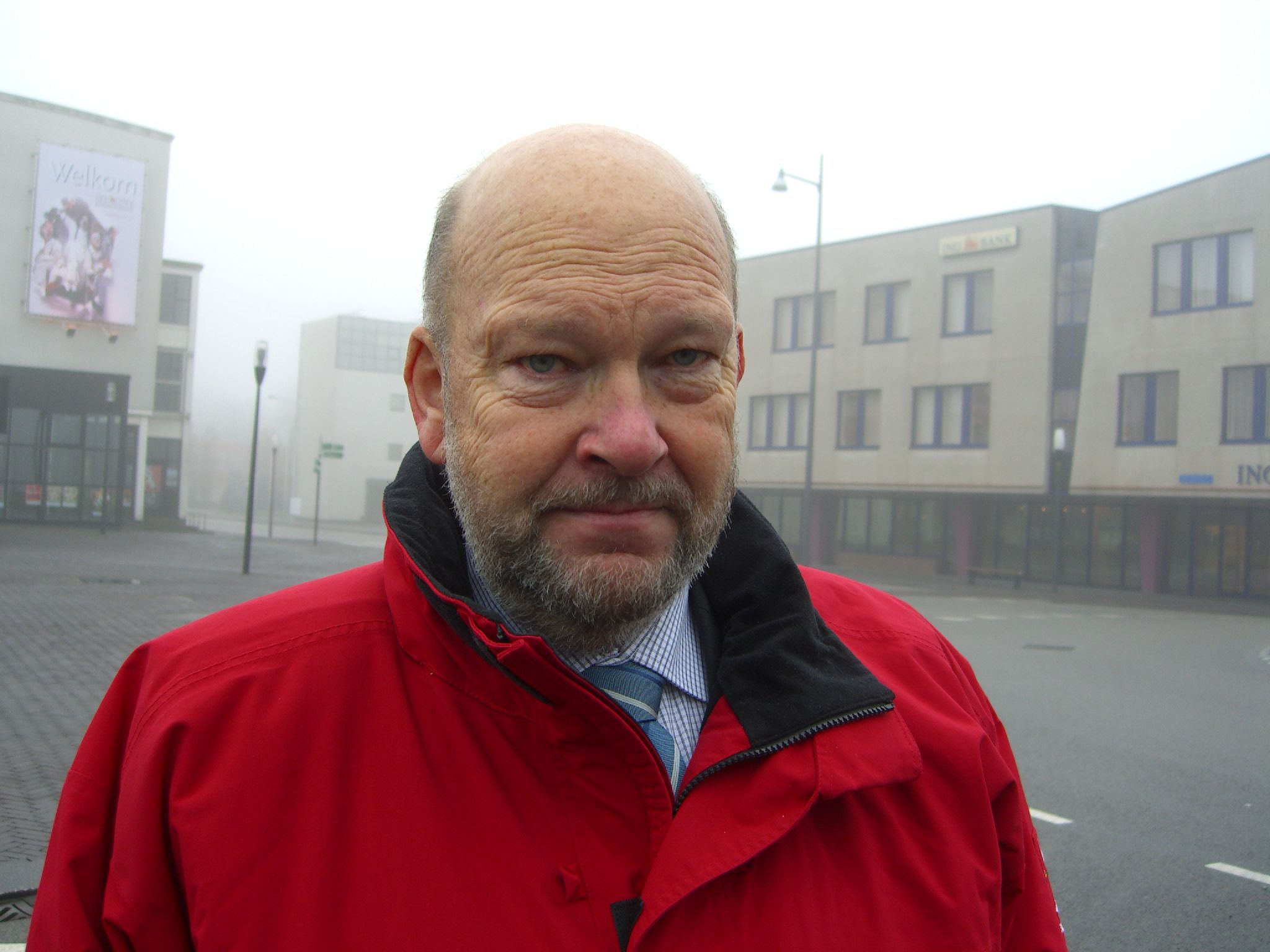 Hans Monderman, traffic engineer noted for traffic calming across Holland by helping communities carefully redesign streets and intersections, typically removing road signs, lane markers and traffic lights. Drachten.